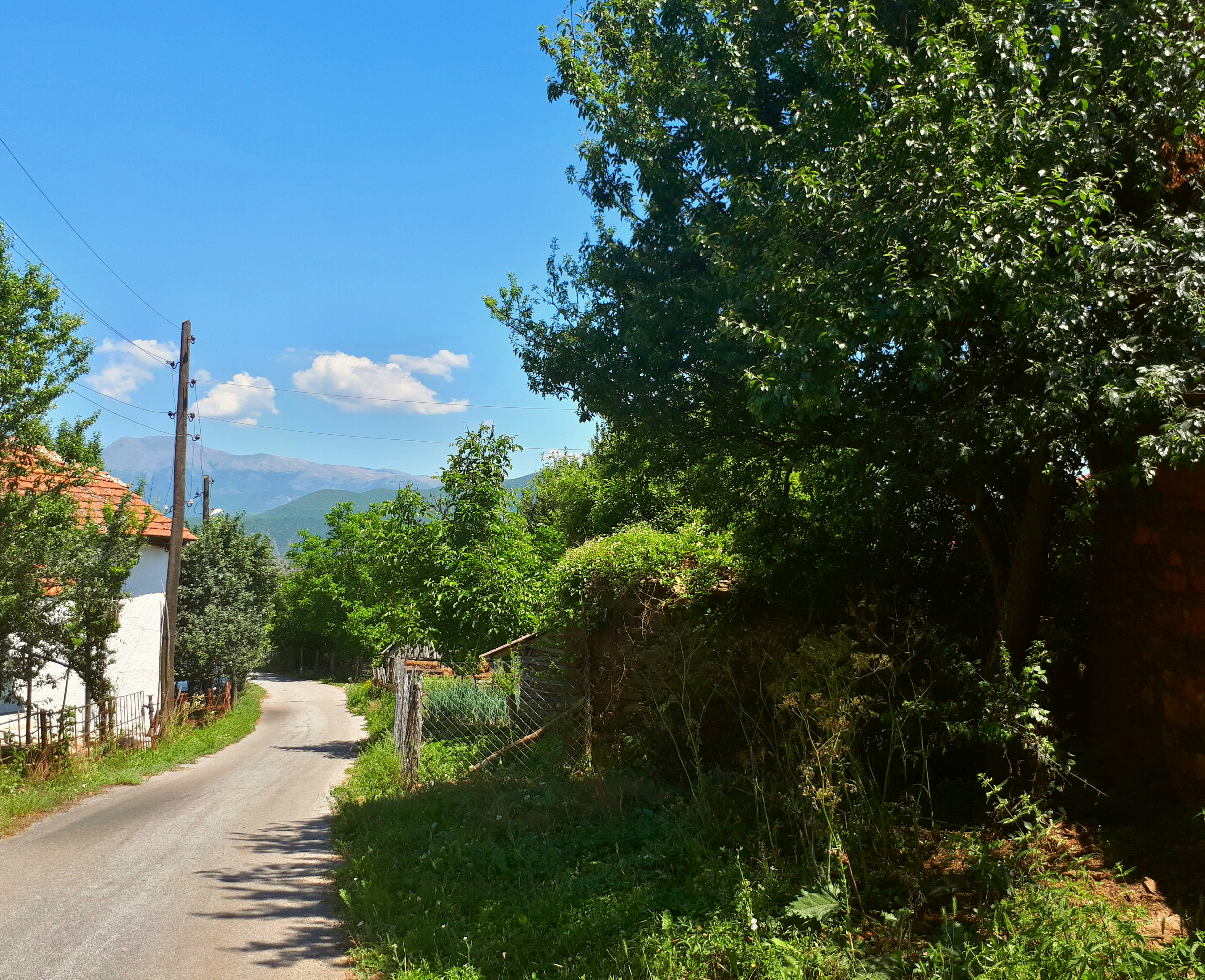 Vasilkovci, part of the village Gorni Manastirec